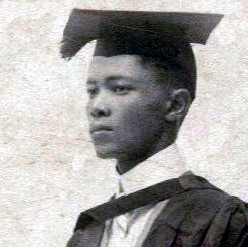 Harold Cressy (1 February, 1889 – 23 August, 1916) was a South African Headteacher and Activist. He was the first coloured person to gain a degree in South Africa in 1911 hence the picture